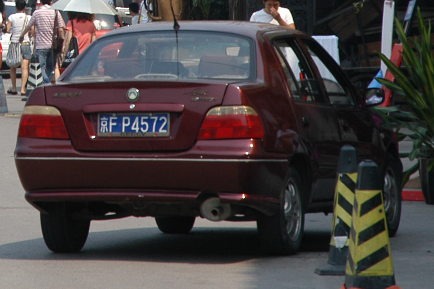 Geely Merrie MR 303 (MR 7130 X3), a heavily modified second generation Daihatsu Charade sedan. Crop of File:Super Bar Street Beijing China.JPG by Scottmeltzer.